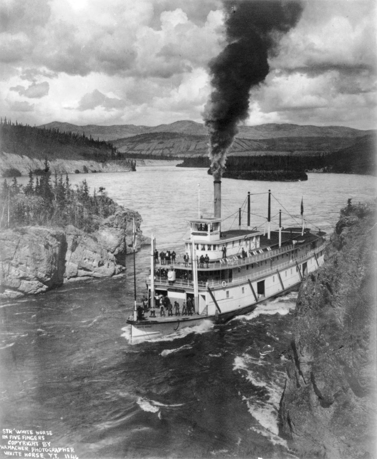 1920 Steamboat on the Yukon River near Whitehorse. Frank G Carpenter Collection, US Library of Congress